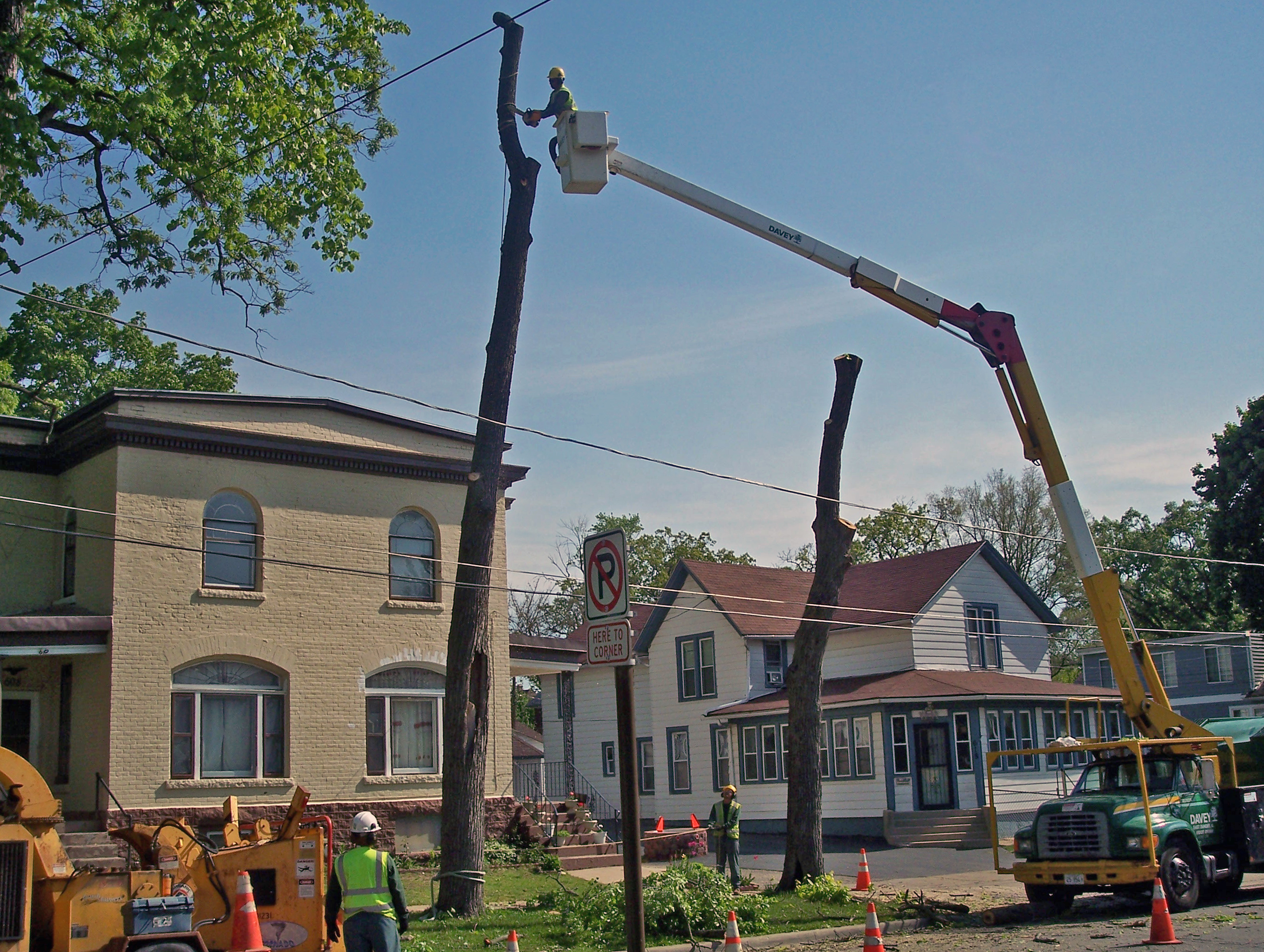 The Davey Tree Expert Company and City of Elgin crews removed and pruned public hazard trees on streets, parks, cemeteries, and golf courses.